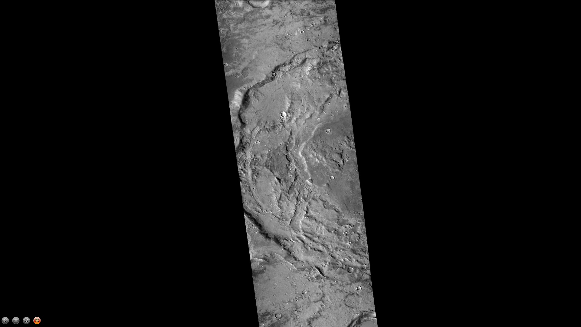 Western side of Focas Crater, as seen by CTX